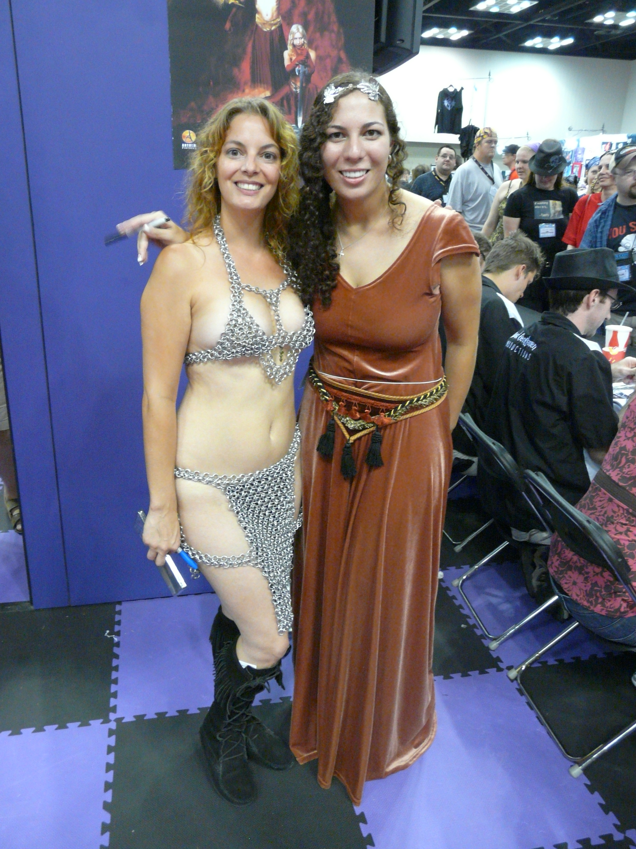 Picture of Gen Con Indy 2008 in Indianapolis, Indiana, USA.